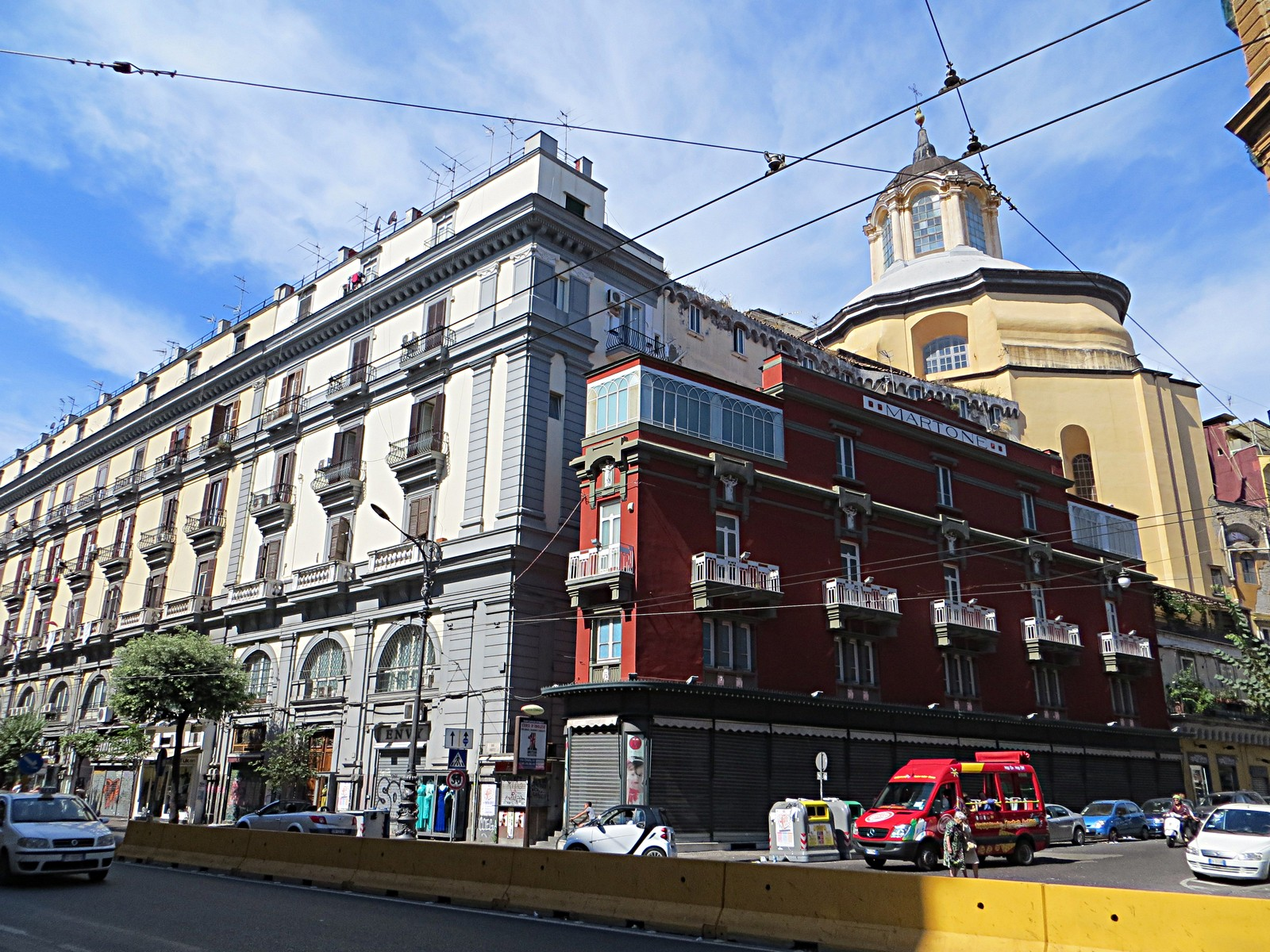 Corso Umberto I